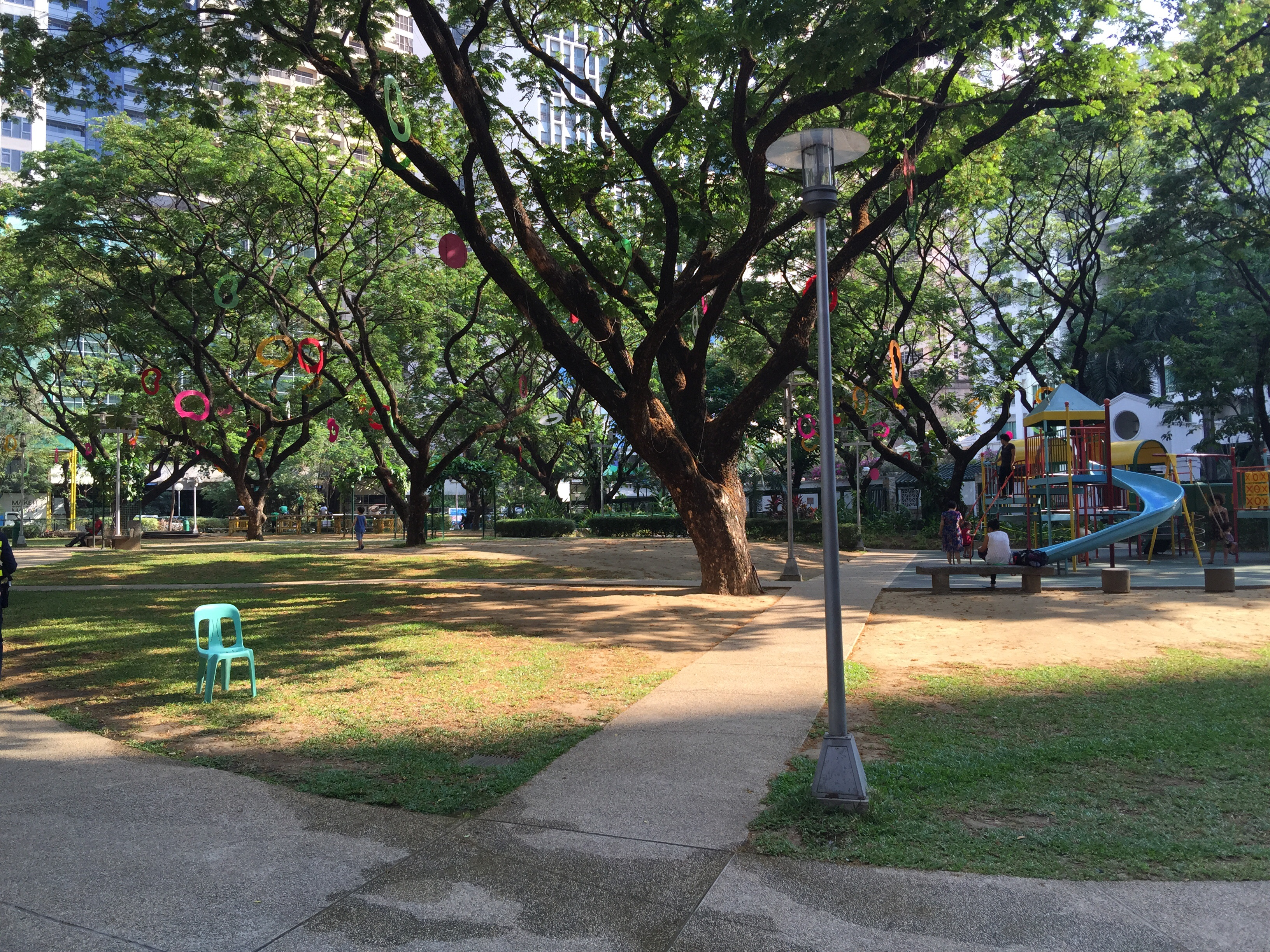 Jaime C. Velasquez Park, more popularly known as Salcedo Park, in Bel-Air Village, Makati, Metro Manila, Philippines